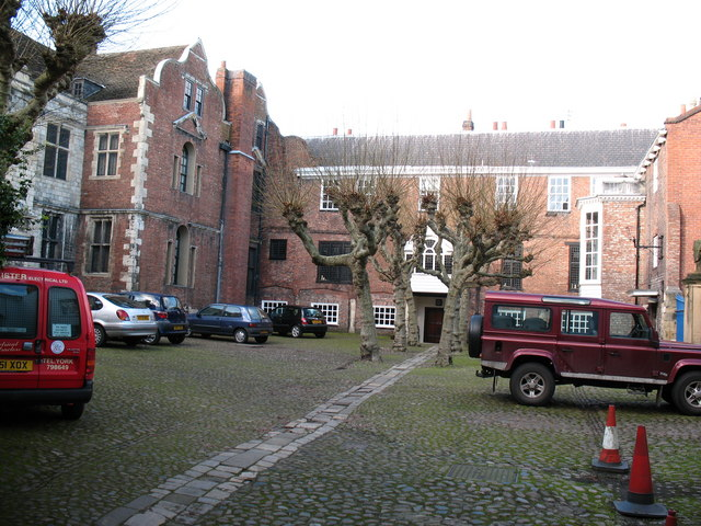 Gray's Court Courtyard at the rear of the Treasurers House, with the redbrick building of Gray's Court facing the camera. The building has been much altered over the centuries with some fragments dating back to the 12th century. Most of what can be seen here is 17thC [lower floors] and circa 1800 [top floor], although there was a thorough restoration around 1900.